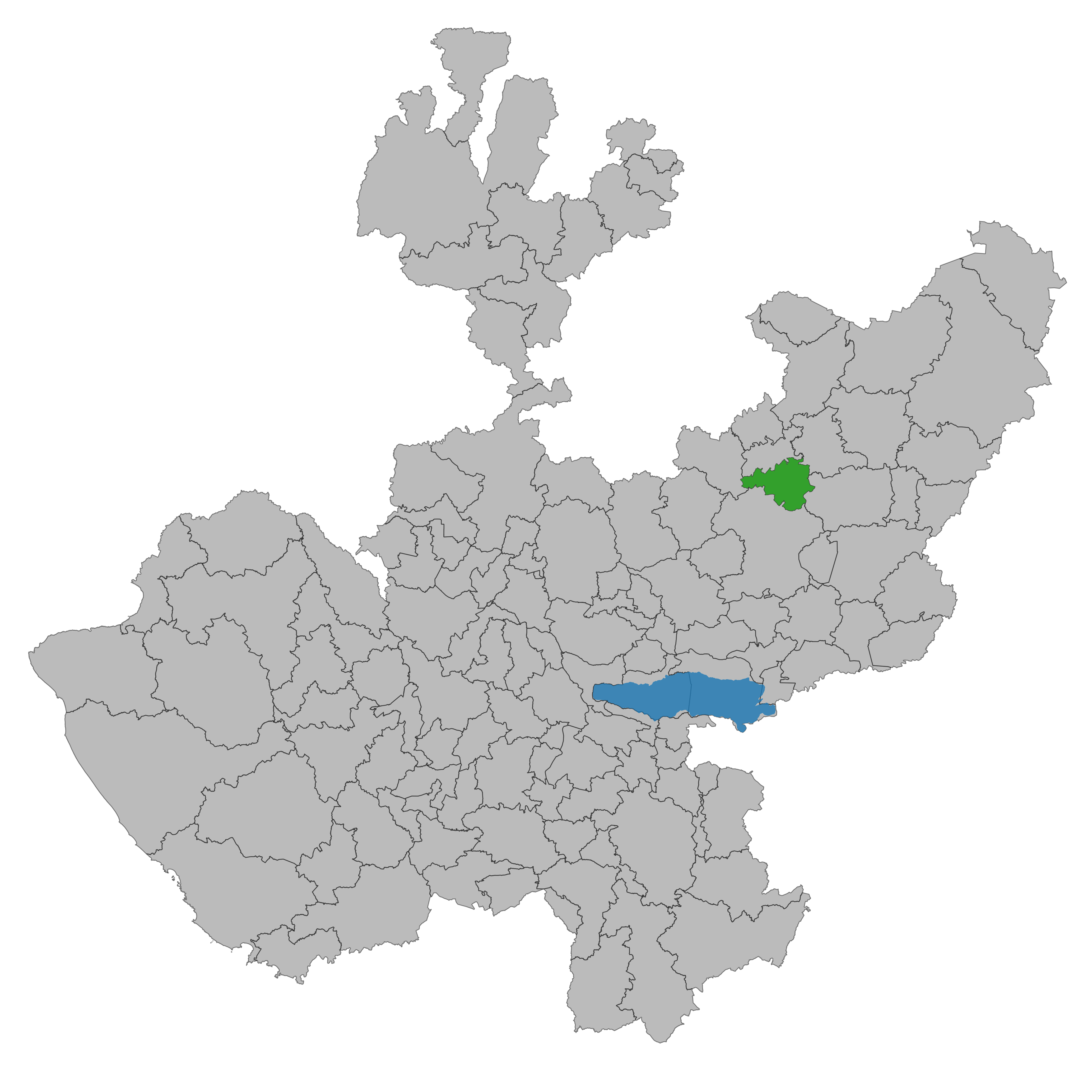 Municipality of Jalisco. Prepared with the software QGIS version 2.8.2 Wien & with information of SCINCE 2010 version 05/2013